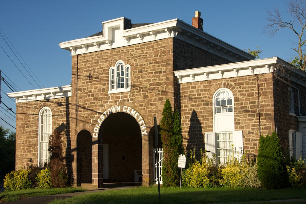 Colestown Gatehouse, Cherry Hill, NJ 08034